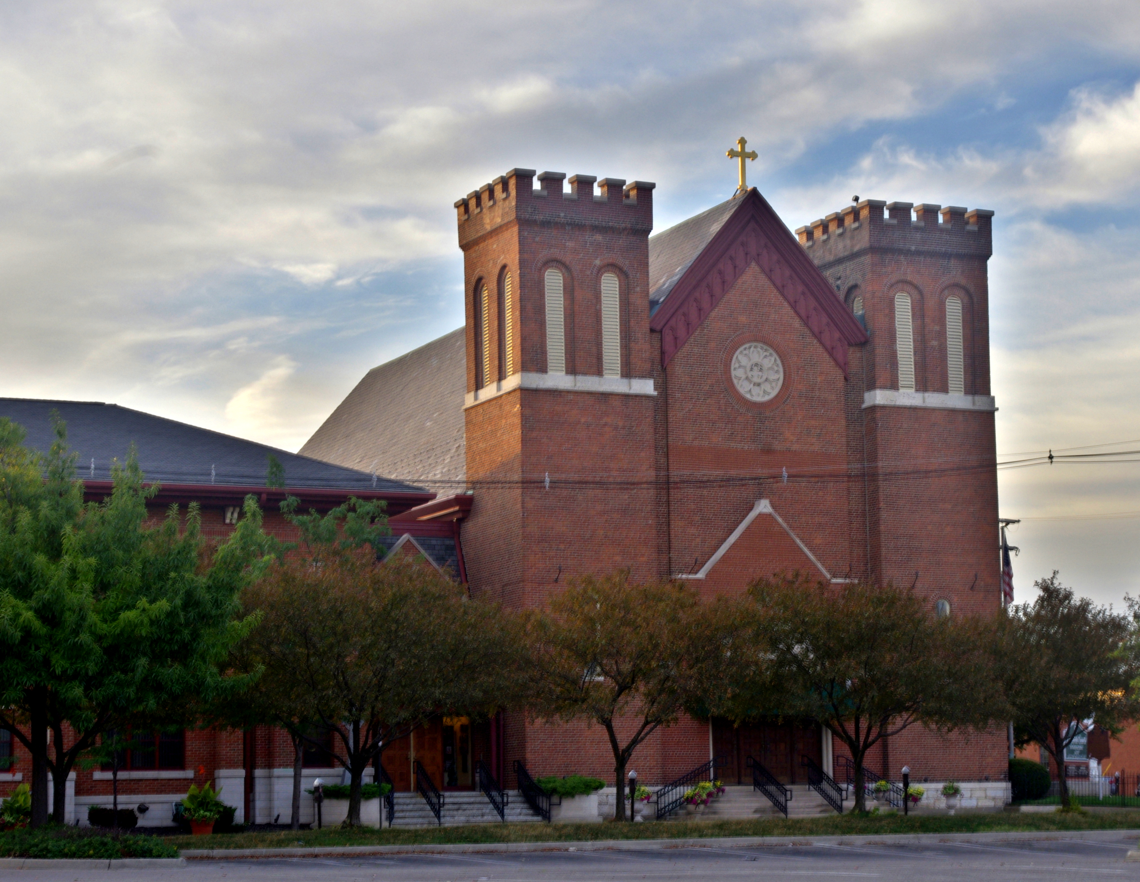 Saint Patrick Church (Columbus, Ohio) - exterior at dawn